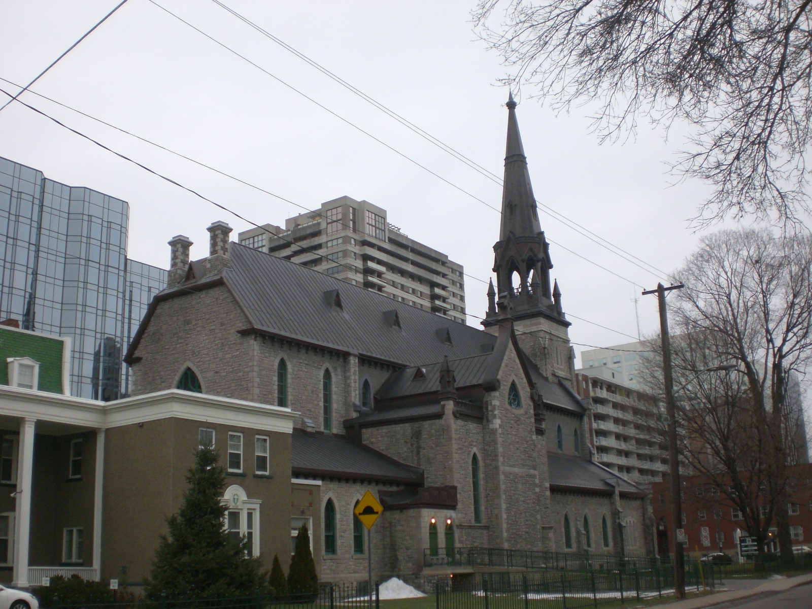 View of St. Patrick's Basilica, Ottawa